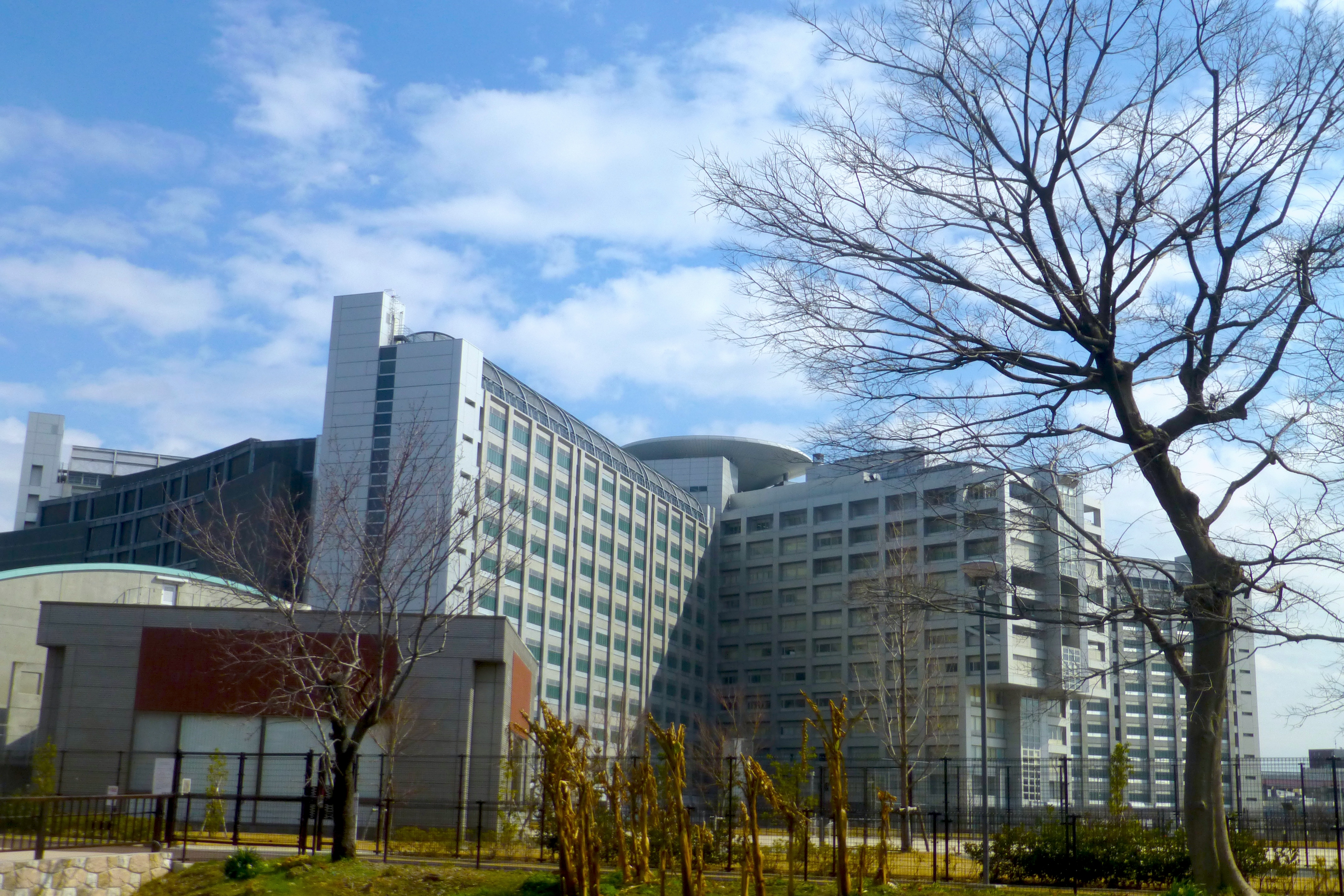 The Tokyo Detention House (東京拘置所 Tōkyō Kōchisho) is a correctional facility in Katsushika, Tokyo. This is outside the facility on a sunny early spring day.